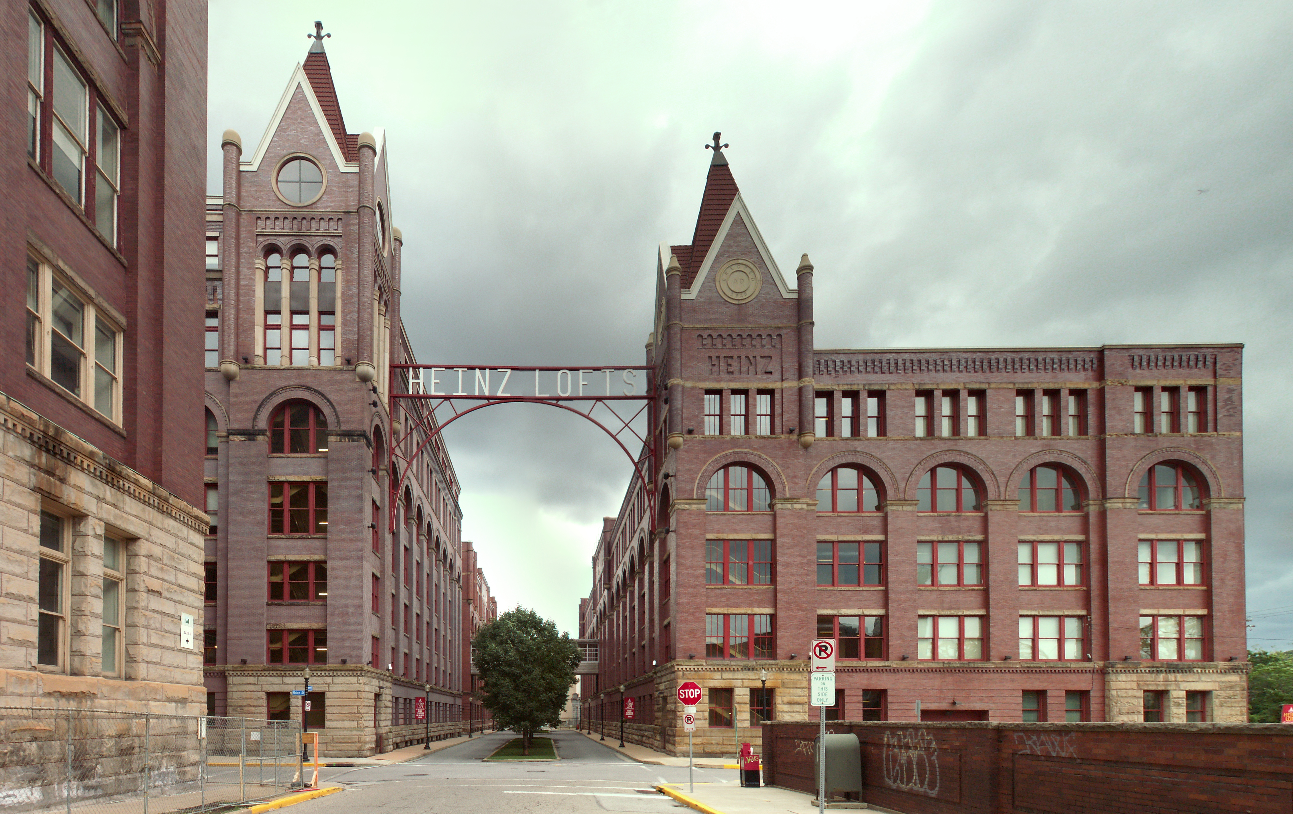 Heinz Factory Buildings, North Side, Pittsburgh